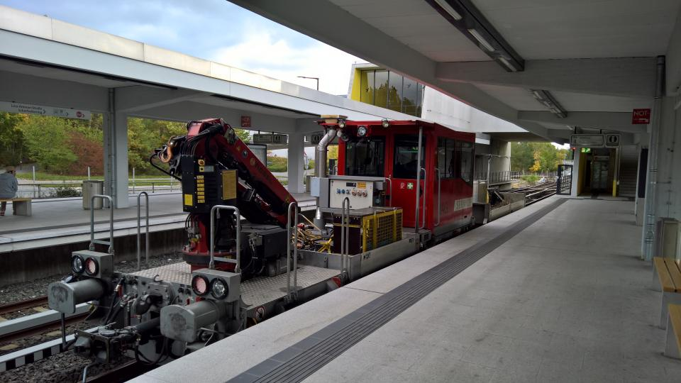 Work train A616 of Subway Nürnberg